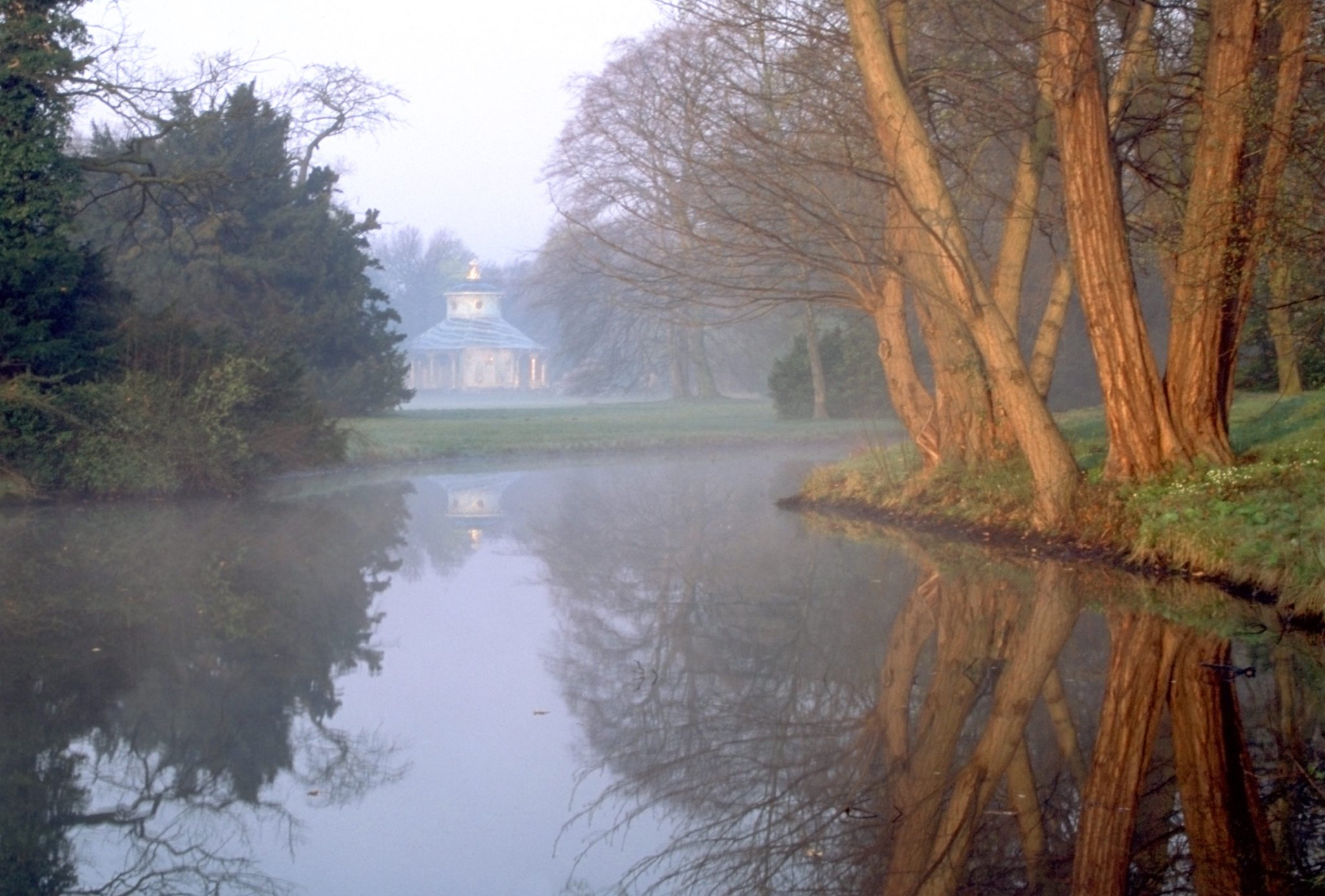 Chinese House in Sanssouci park in Potsdam, Germany.